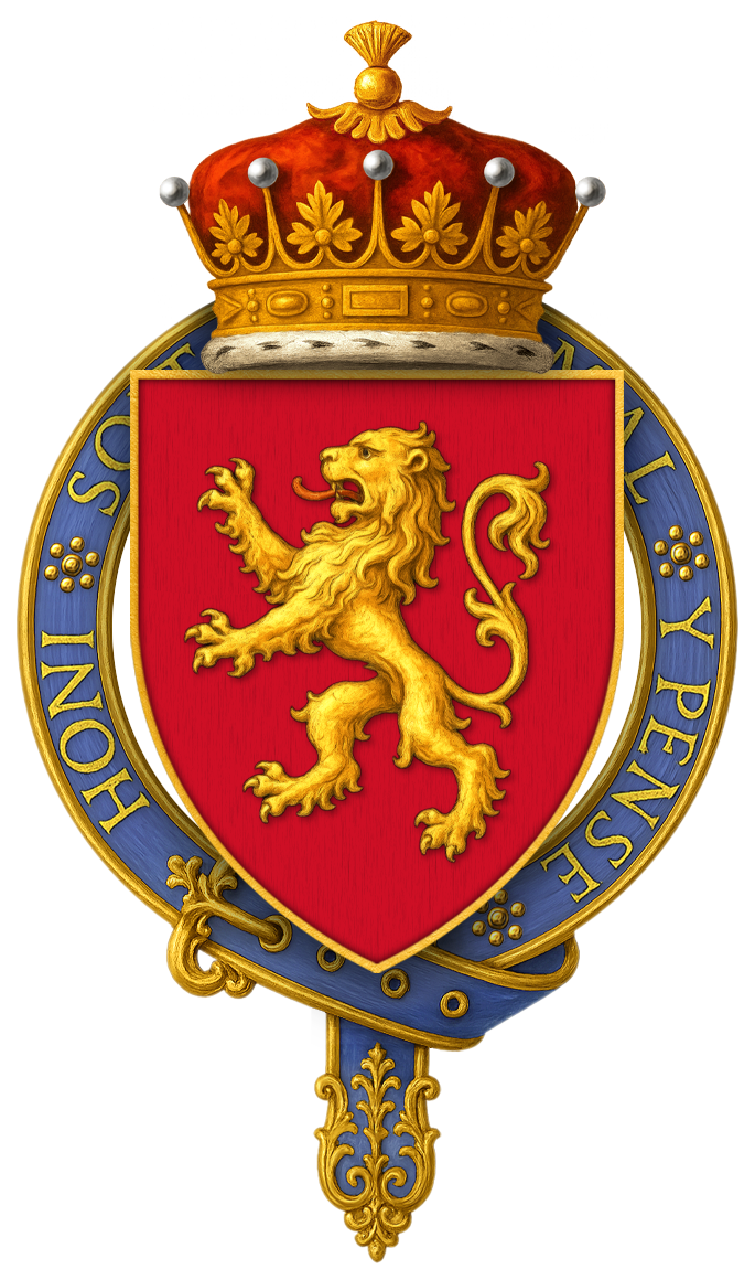 Sir Richard FitzAlan, 11th Earl of Arundel, KG BELTZ, George Frederick, Memorials of the Order of the Garter from Its Foundation to the Present Time, London: William Pickering, 1841. “ Richard Fitzalan Sixth Earl of Arundel… Arms: Gules, a lion rampant Or. ” FOSTER, Joseph, Some Feudal Coats of Arms from Heraldic Rolls 1298-1418, London; & Oxford: James Parker & Co., 1902. “ Fitz Alan, Sir Richard, Earl of Arundel, banneret -- sealed the Barons' letter to the Pope 1301, and bore, at the battle of Falkirk 1298, and at the siege of Carlaverock 1300, gules, a lyon rampant or; ascribed to John in the Dering Roll (F.); another Earl John bore it at the siege of Rouen 1418 quarterly with Maltravers, sable a fret or; fretty in Monumental Effigy. ”